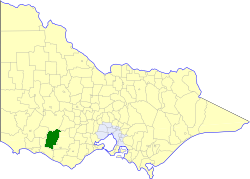 Location of the former Shire of Mortlake within Victoria.